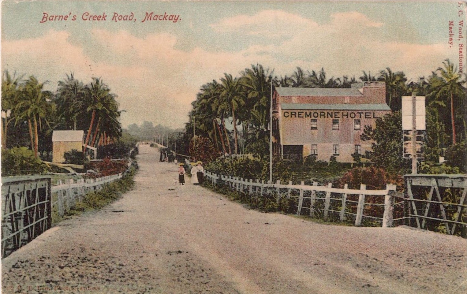 Cremorne Hotel on Barne's Creek Road, Mackay, Qld - very early 1900s